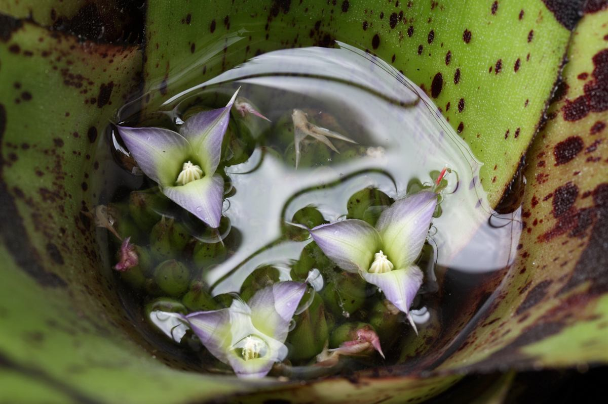 Plants/Bromeliad/Neoregelia/Apollo's Poetry